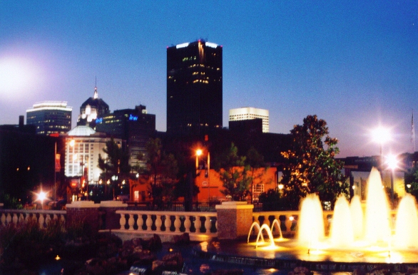 Central Oklahoma City with the Bank of America and other downtown buildings in the background.